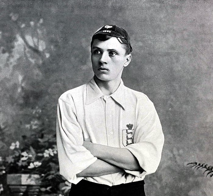 Photo of English Football Player Steve Bloomer